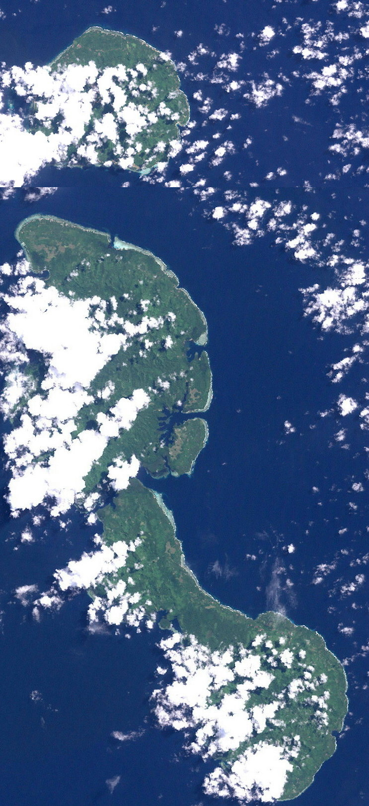 This satellite image (Landsat 7) shows the Tabar Islands Group with - from North to South - the islands Simberi, Tatau and and Tabar, Bismarcksea, Papua New Guinea